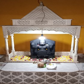 There is a temple of Satmai Devi in the middle of the village, it is a village goddess.